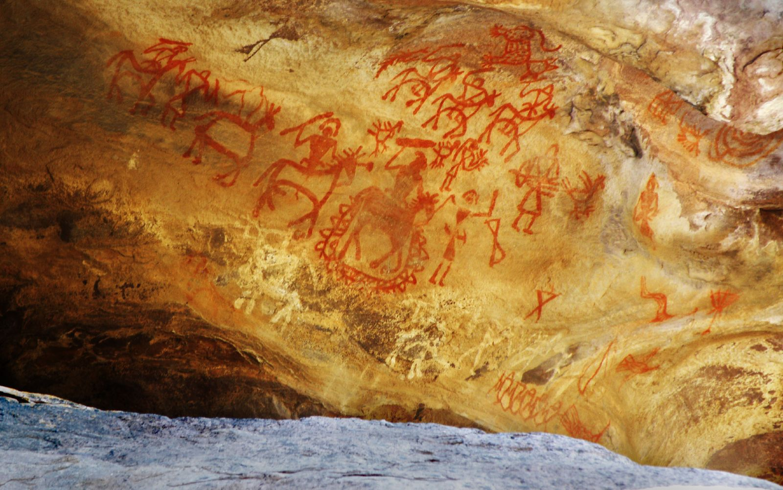 Looks pretty new right? This painting is from 1500-2000BC. भीमबैटिका The white colour(bottom) was made from grinding limestone with vegetable oil. The rock shelters have preserved the paintings from rain water. Bhimbetka is a UNESCO World Heritage Centre. Tip for people who may want to go there: There are guides available from the Madhya Pradesh State Department of Tourism at that site. Be careful though. Those guys would probably show you only a small part of that area and not the whole place. In case you want to see all the paintings, do not hesitate to take the lead and wander off into other places which the guide didn't take you to(only where the walkways go though; don't wander off into the bushes :P).